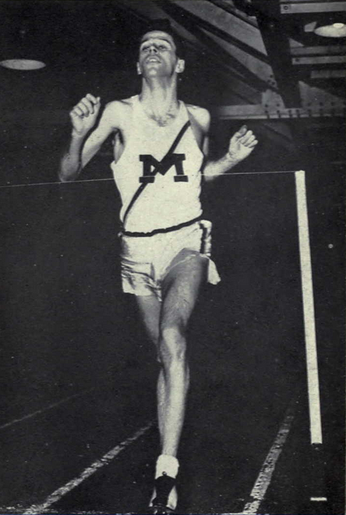 Photograph of Don McEwen, breaking world indoor two-mile record This work is in the public domain because it was published in the United States between 1924 and 1963 and although there may or may not have been a copyright notice, the copyright was not renewed. Unless its author has been dead for the required period, it is copyrighted in the countries or areas that do not apply the rule of the shorter term for US works, such as Canada (50 pma), Mainland China (50 pma, not Hong Kong or Macao), Germany (70 pma), Mexico (100 pma), Switzerland (70 pma), and other countries with individual treaties. See Commons:Hirtle chart for further explanation. This work is in the public domain in the United States because it was published in the United States between 1924 and 1977 without a copyright notice. See Commons:Hirtle chart for further explanation. Note that it may still be copyrighted in jurisdictions that do not apply the rule of the shorter term for US works (depending on the date of the author's death), such as Canada (50 p.m.a.), Mainland China (50 p.m.a., not Hong Kong or Macao), Germany (70 p.m.a.), Mexico (100 p.m.a.), Switzerland (70 p.m.a.), and other countries with individual treaties.